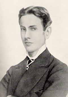 Portrait of Prince Louis of Battenberg (later Admiral of the Fleet the Marquess of Milford Haven)